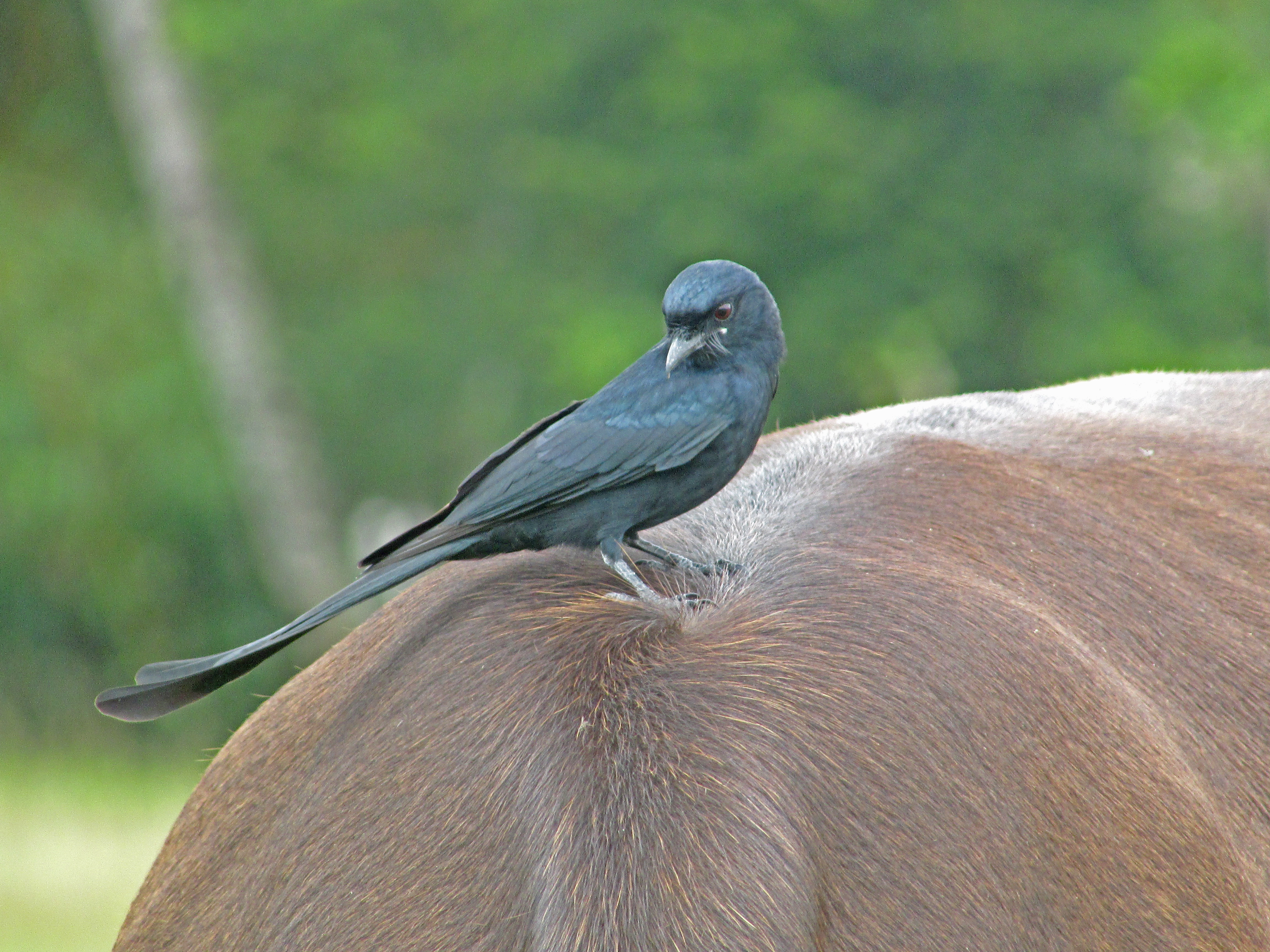 Black Drongo Dicrurus macrocercus, Kerala, India